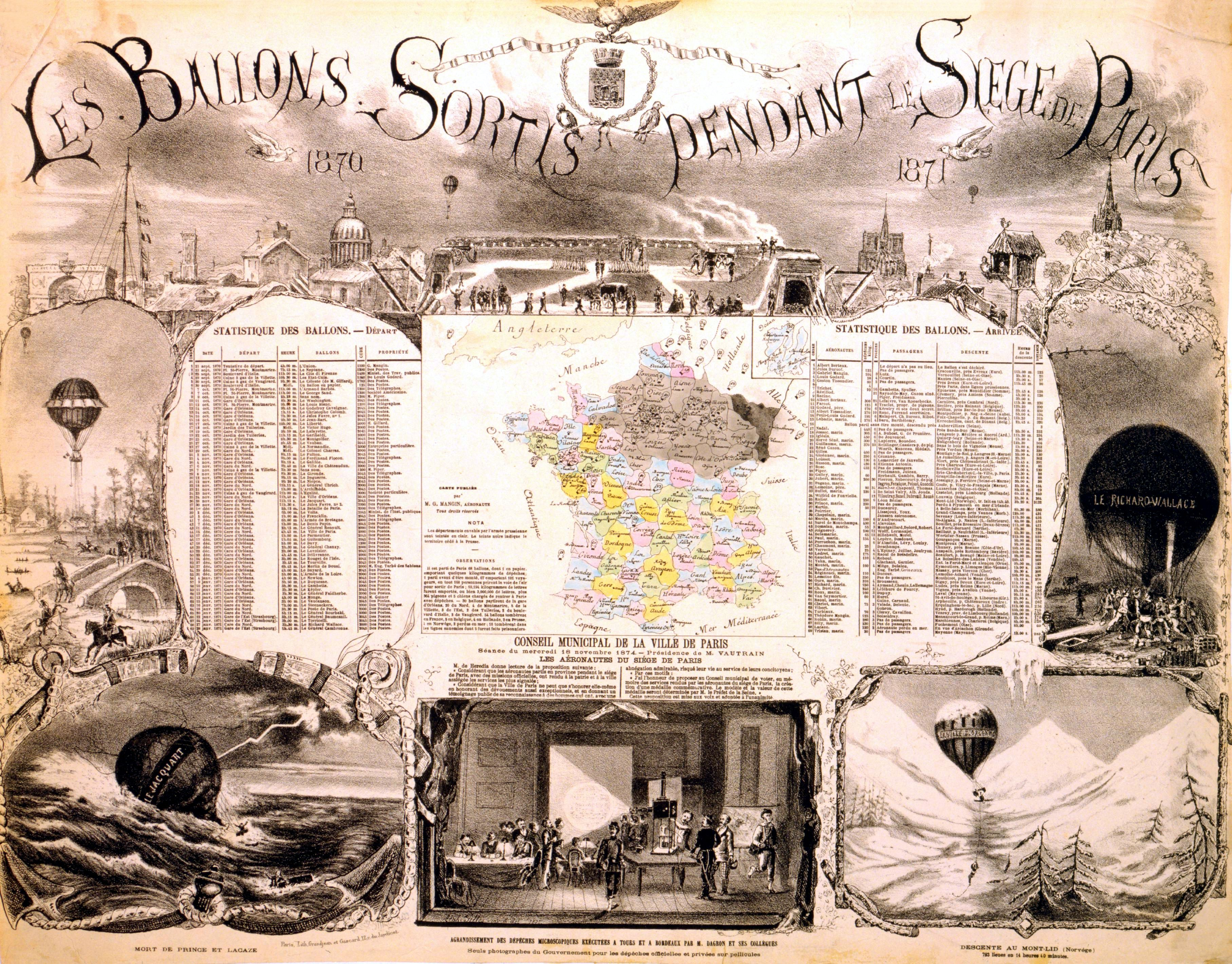 Le ballons sortis pendant le Siege de Paris, 1870-1871. Broadside about balloon events during the Siege of Paris, 1870-1871. Includes a list of balloons that left Paris, keyed to a map of their descents. Several vignettes show balloons, including "le Richard Wallace" at battle sites. Illustrations at bottom depict "Morte de Prince et LaCaze" (crash of "Le Jaquart" at sea); "Agrandissement des dépèches microscopiques exécutées a Tours et a Bordeaux par M. Dagron et ses collègues" (lecture by photographer Dagron); and "Descente au Mont-Lid (Norvége)" ("La ville d'Orleans" in mountains).